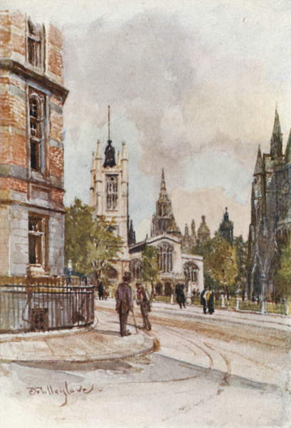 St. Margaret's, Westminster